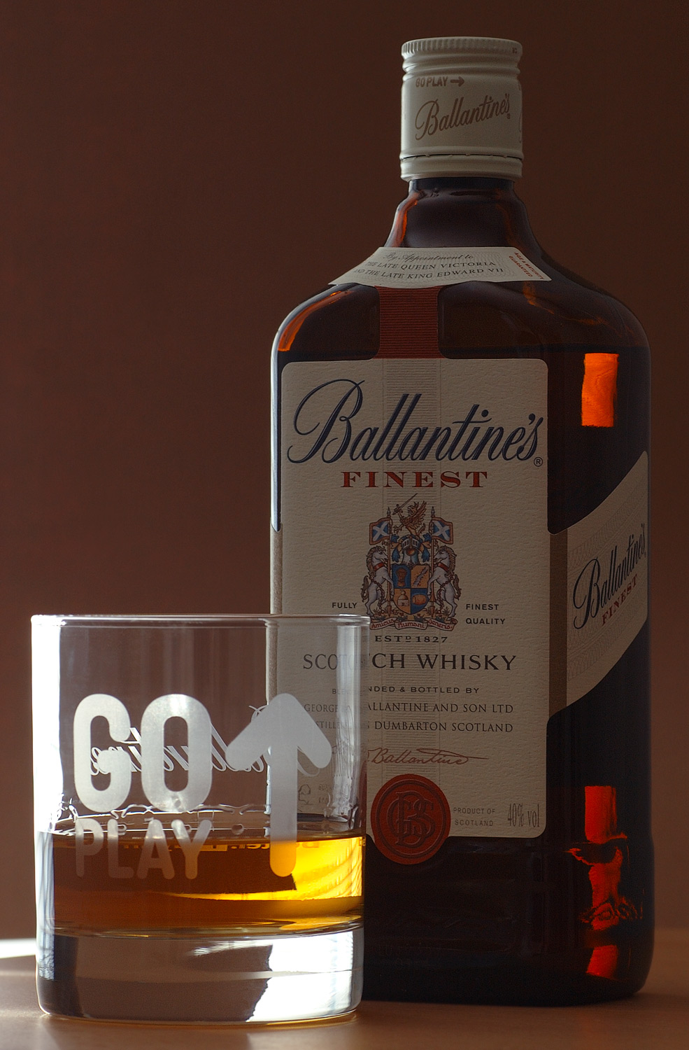 This image shows a bottle and a glass of scotch whisky.